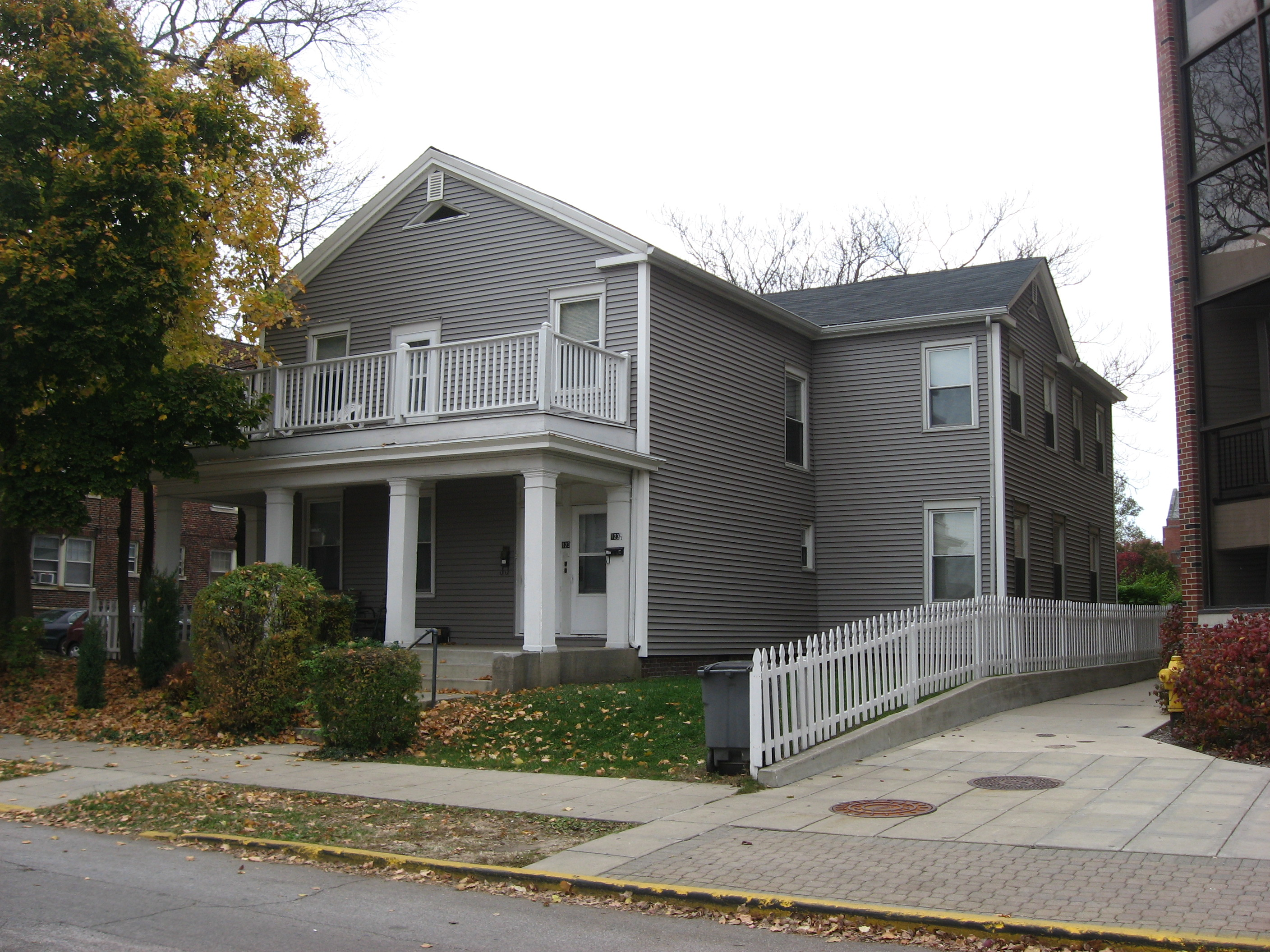 Front of the Jesse Andrew House, located at 123 Andrew Place in West Lafayette, Indiana, United States. Built in 1859, it is listed on the National Register of Historic Places.